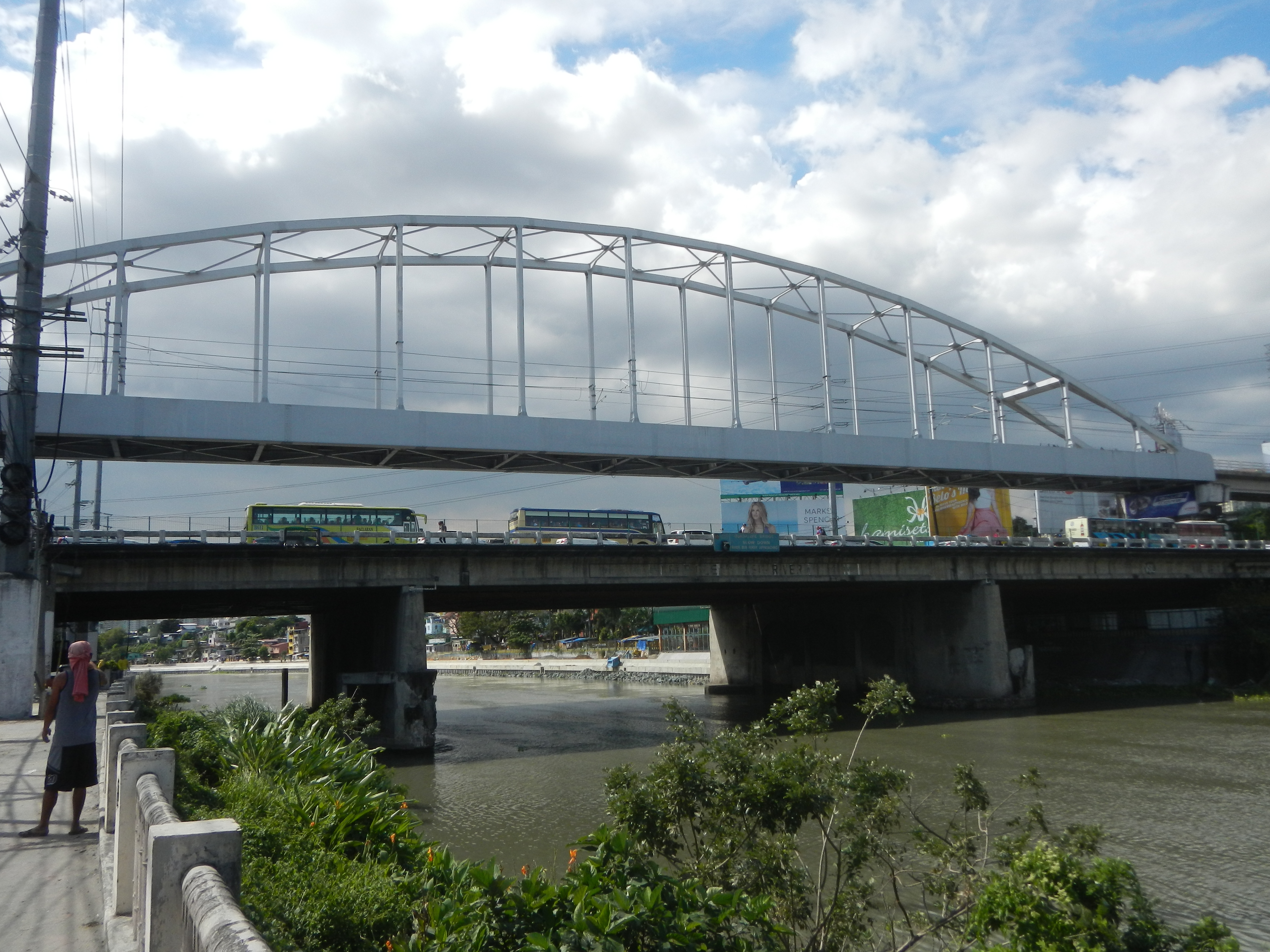 Guadalupe Nuevo-Viejo Bridge, MRT Station - Pasig River (Mandaluyong & Makati City) - J. P. Rizal Avenue (Cembo & West Rembo, Makati City) Guadalupe Cloverleaf Interchange Park (Makati City Boundary Monument, EDSA, Guadalupe Nuevo, J. P. Rizal Extension, Pasig River, Mandaluyong City) Sgt. Fabian Yabut Circle, towards the Pasig River Park (Baywalk, Buayang Bato, Mandaluyong City - J. P. Rizal Extension, Cembo - West & East Rembo, Makati City) List of rivers and estuaries in Metro Manila Pasig River (Makati-Mandaluyong City section) Guadalupe MRT Station Guadalupe Bridge (Makati-Mandaluyong Bridge) Metro Manila Road Network EDSA (road) Epifanio de los Santos Avenue Highway 54, List of roads in Metro Manila, Epifanio de los Santos Avenue (EDSA, Makati City - Pasay City section) (List of crossings of the Pasig River J.P. Rizal Avenue J. P. Rizal Extension, District II, Makati City 14°33'46"N 121°3'34"E J. P. Rizal Street 14°34'18"N 121°0'57"E District II, Guadalupe Cloverleaf 14°34'2"N 121°2'43"E Amphithetre 14°34'1"N 121°2'45"E Interchange 14°34'2"N 121°2'44"E List of barangays of Metro Manila, Legislative districts of Makati, Barangays Guadalupe Nuevo 14°33'46"N 121°2'43"E Cembo 14°33'54"N 121°3'2"E West Rembo 14°33'40"N 121°3'36"E East Rembo 14°33'11"N 121°3'42"E Makati in front of List of barangays of Metro Manila, Barangay Barangka Ilaya 14°34'21"N 121°3'2"E Mandaluyong City)